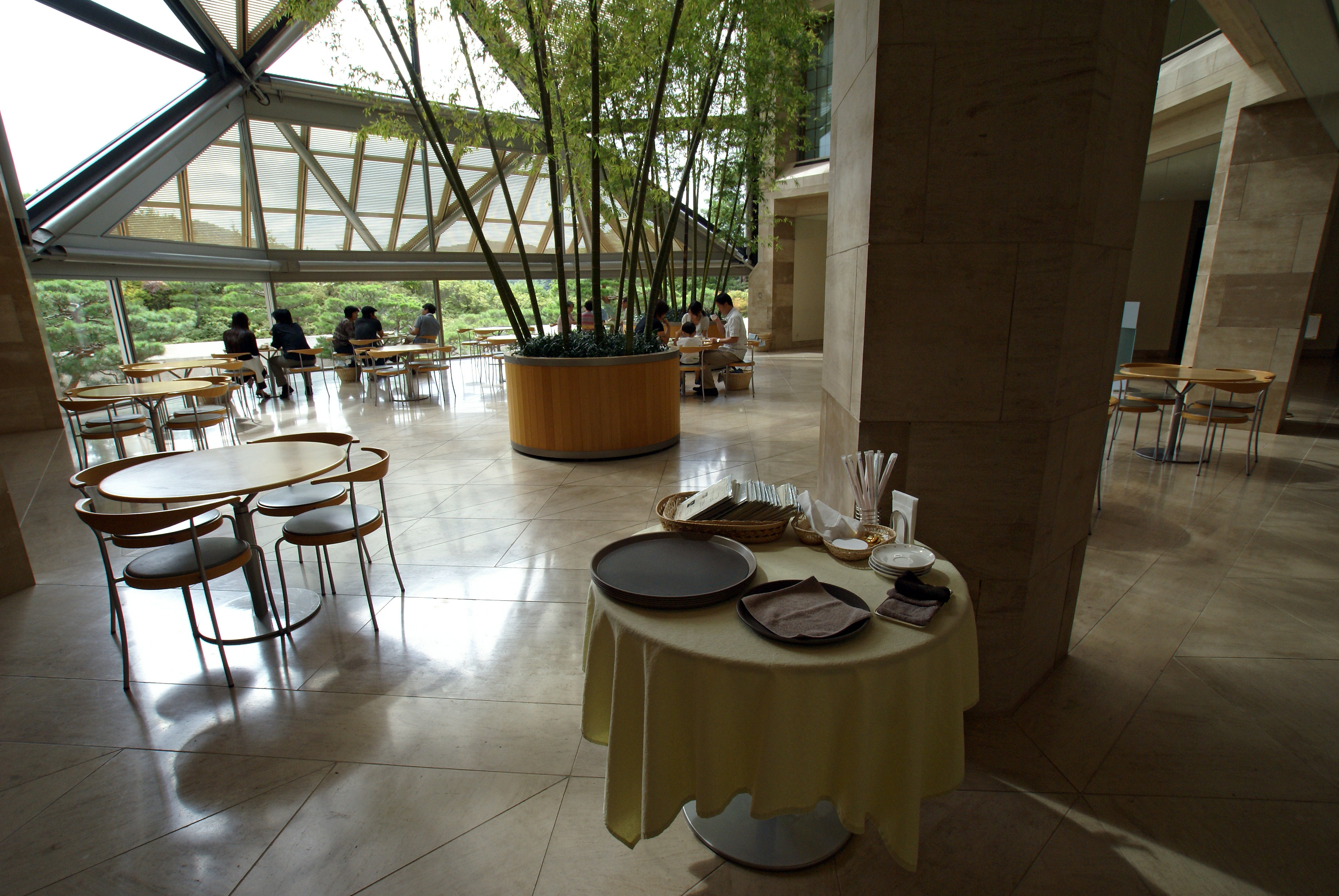 Miho Museum in Koka, Shiga prefecture, Japan